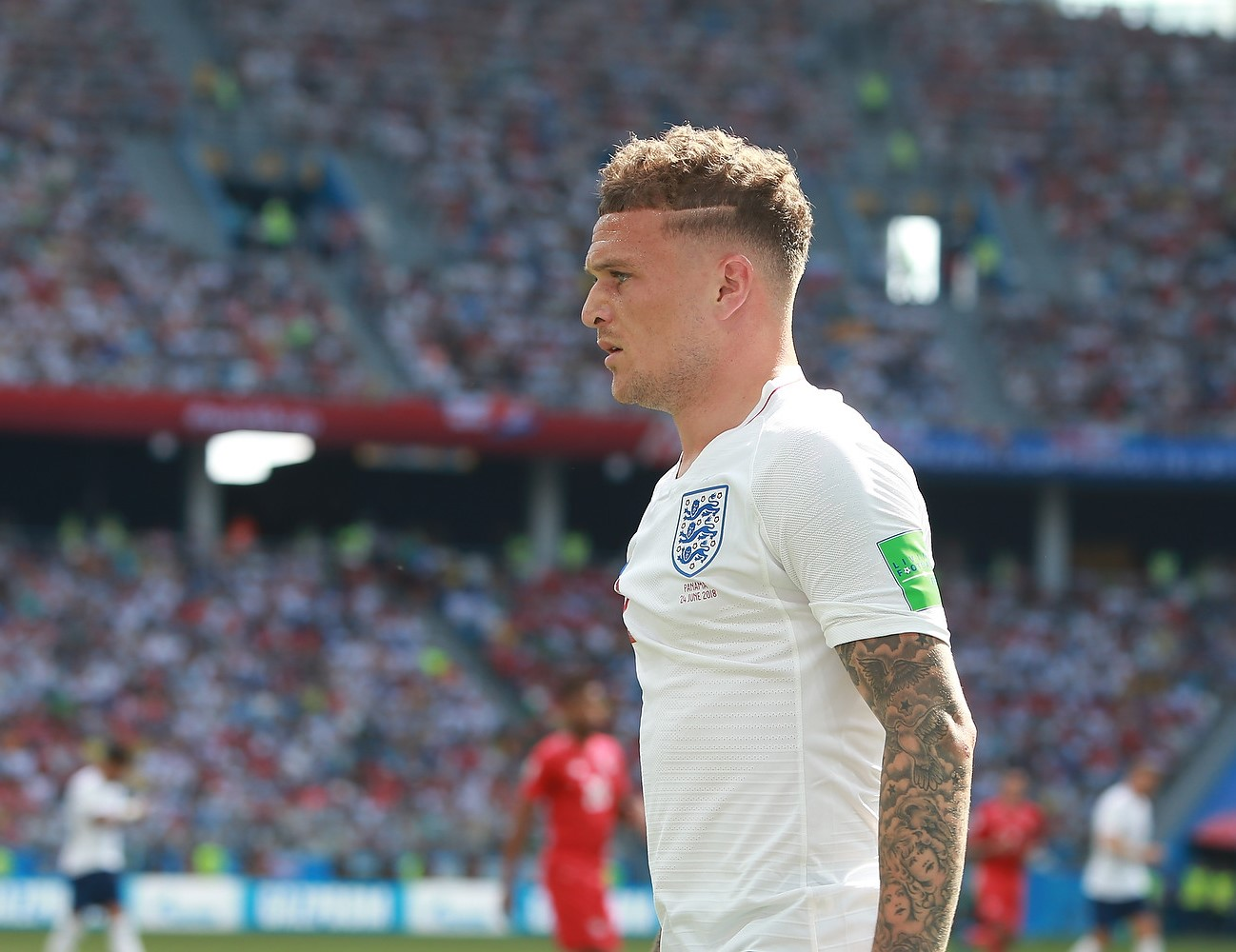 Kieran Trippier